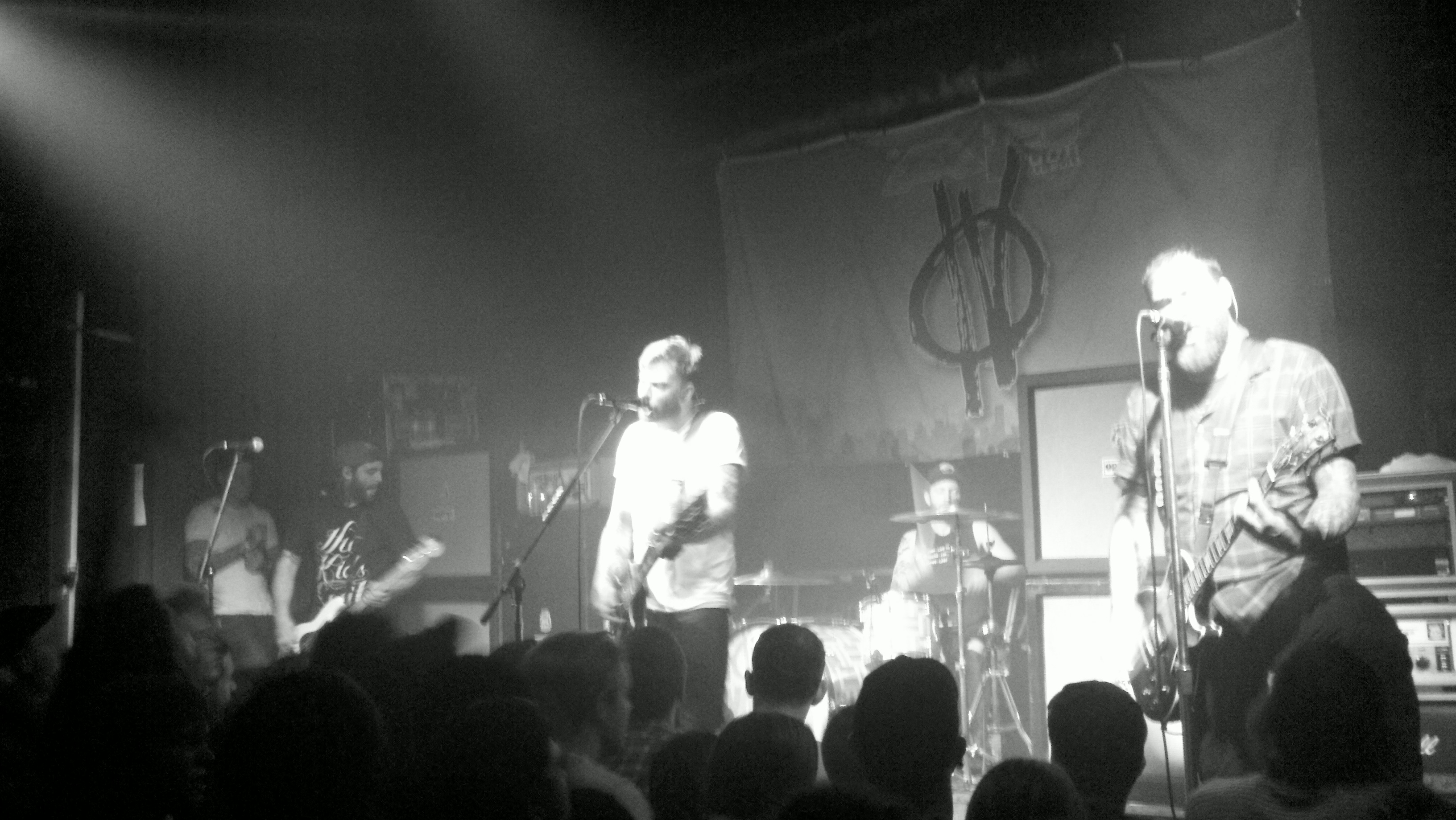 Four Year Strong performing on November 6, 2011 at Soma in San Diego, California as part of The AP Tour Fall 2011. Left to right: bassist/backing vocalit Joe Weiss, guitarist/lead singer Dan O'Connor, drummer Jackson Massucco, and guitarist/vocalist Alan Day.